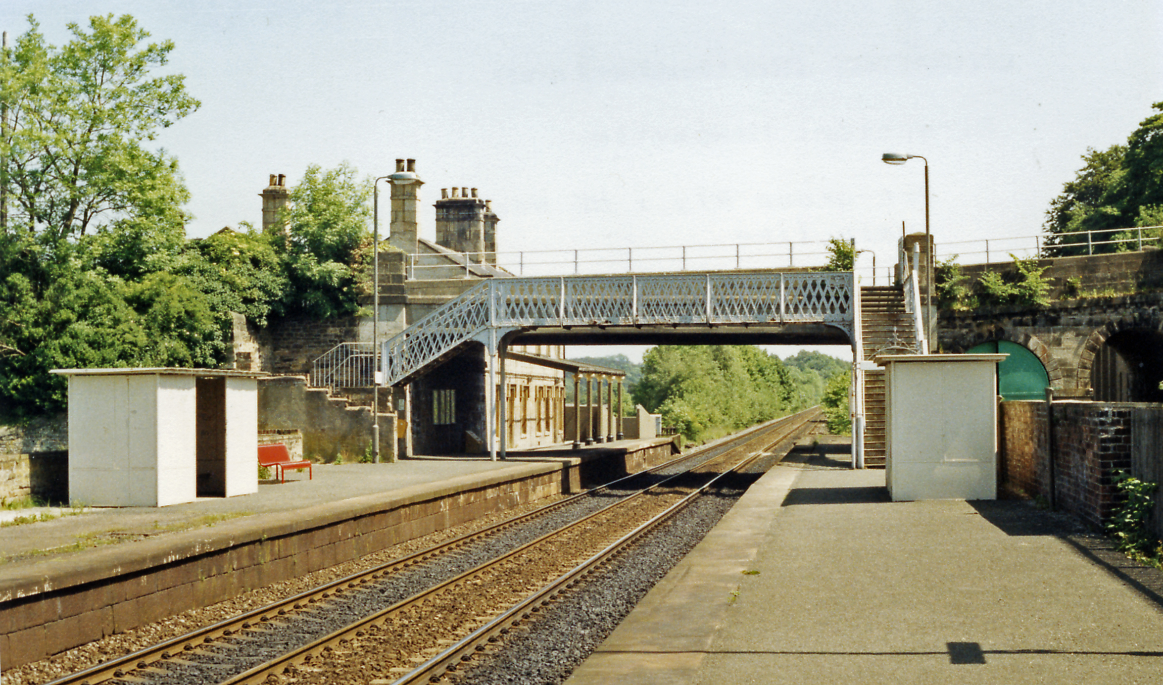 Corbridge station, 1988. View eastwards, towards Newcastle-on-Tyne: ex-NER Newcastle - Carlisle main line. One of the earliest to be built, this remains a major east-west railway.